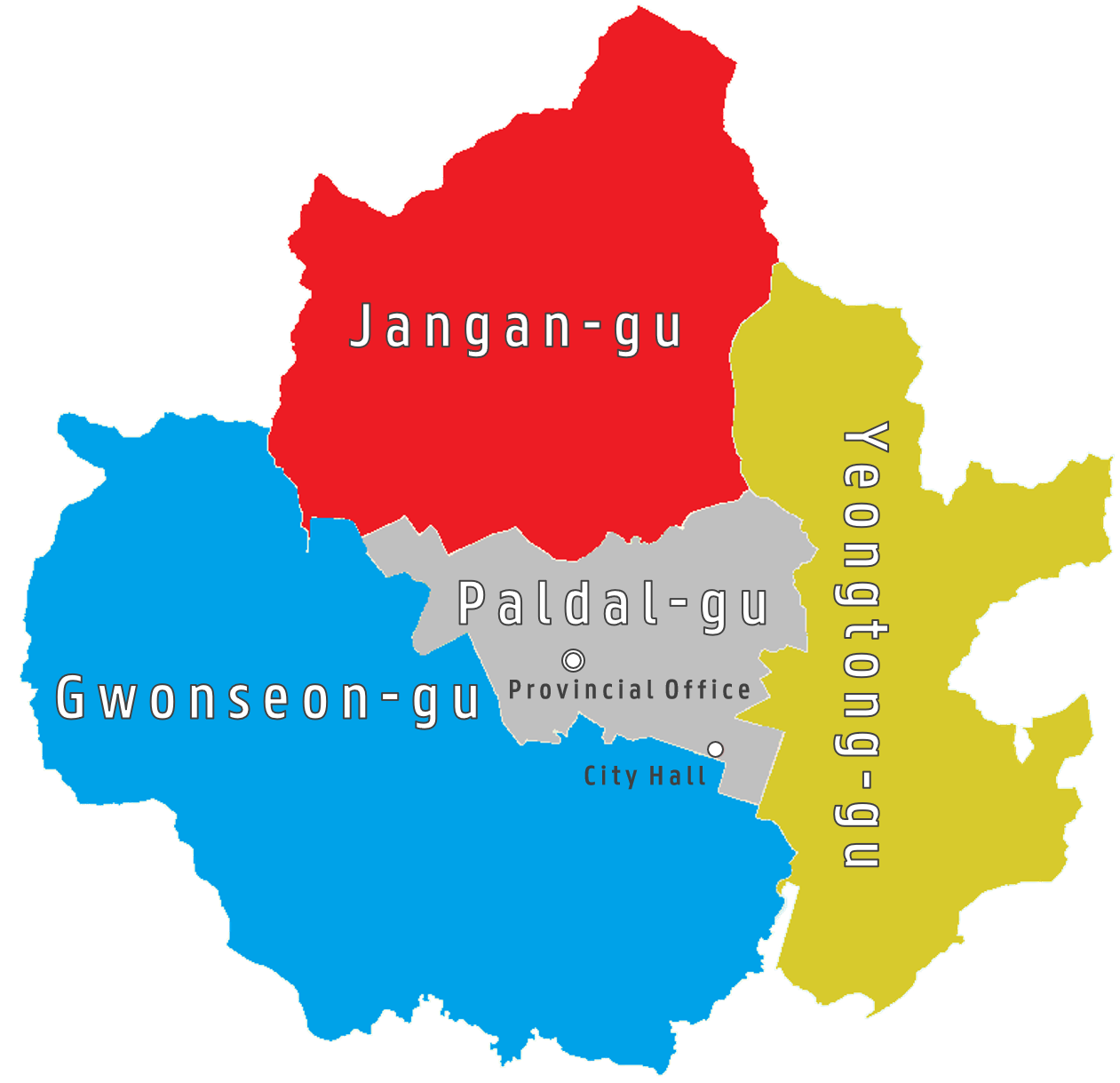 Map of divisions of Suwon, South Korea